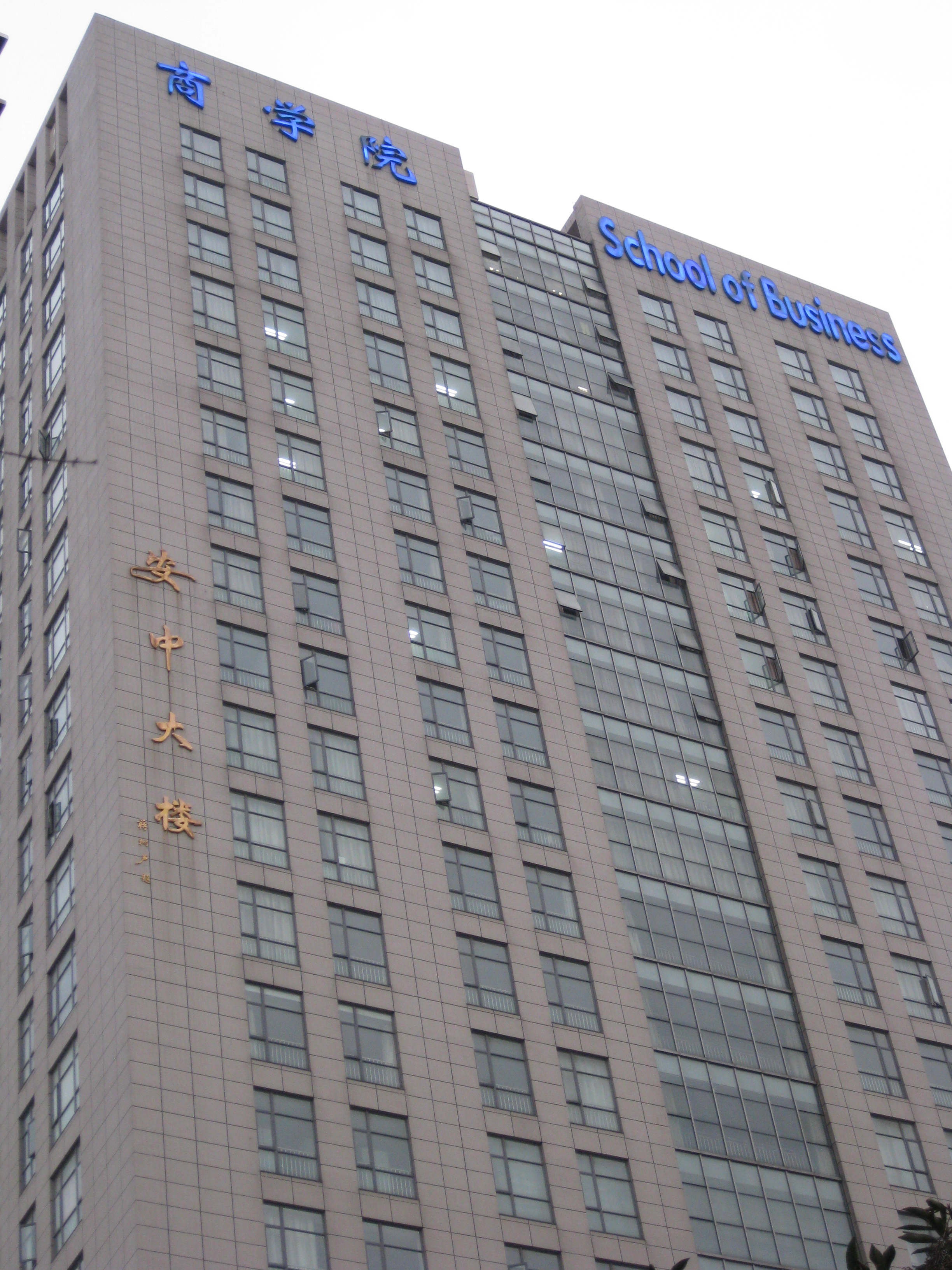 The Anzhong, Nanjing University Business School